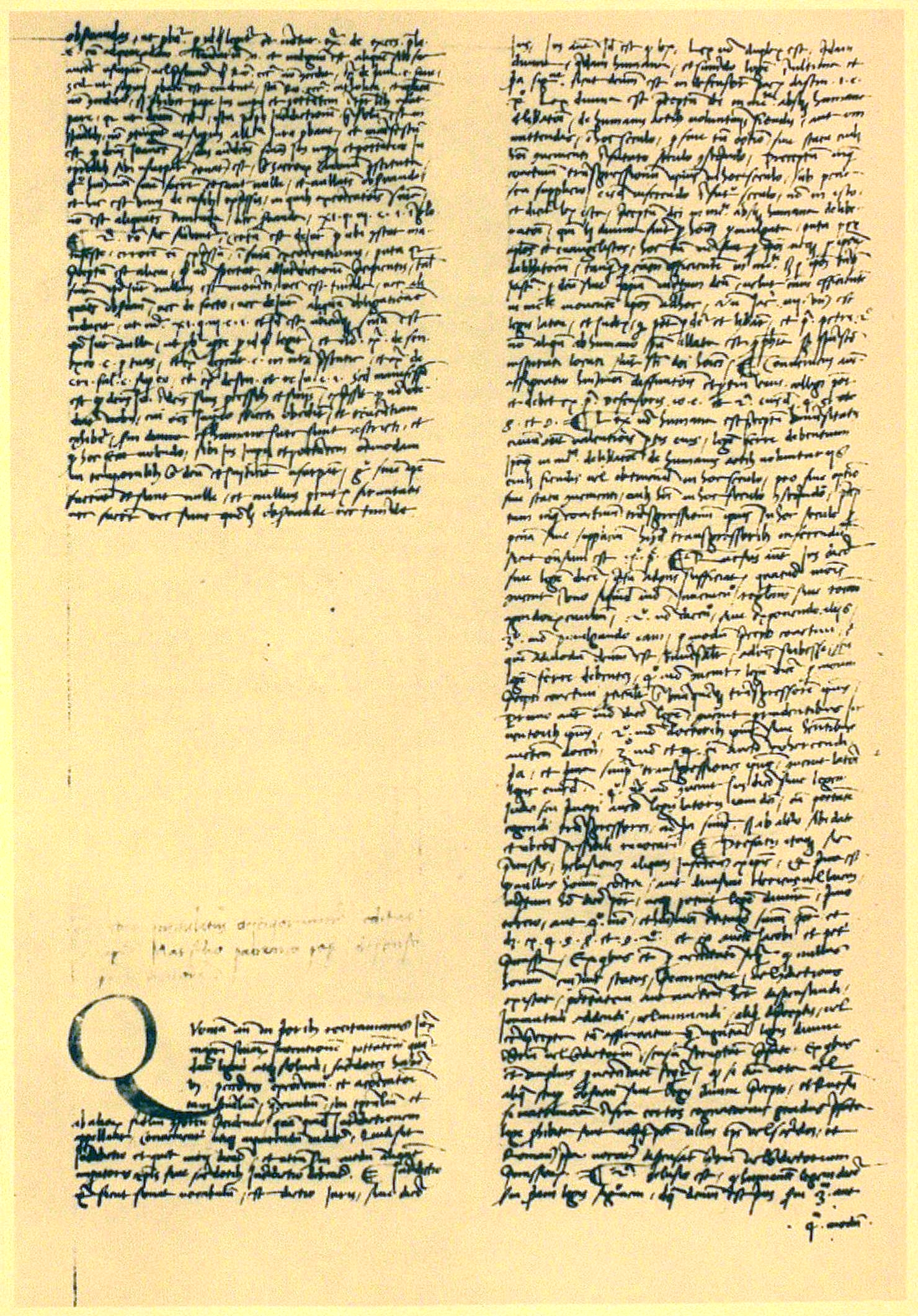 The beginning of the Defensor minor in the manuscript Oxford, Bodleian Library, Canonici misc. 188, fol. 71v.